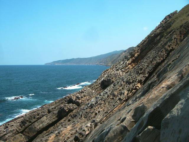 Jaizkibel cliff